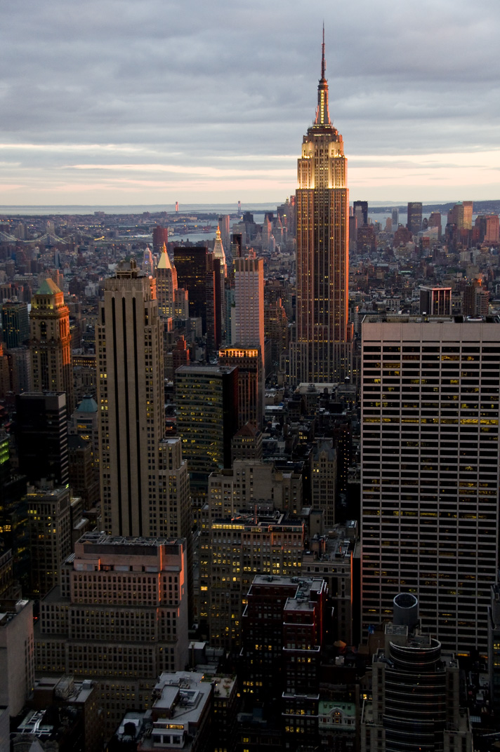 View of the Empire State Building at sunset, taken from the top of the Rock, Rockefeller Plaza.